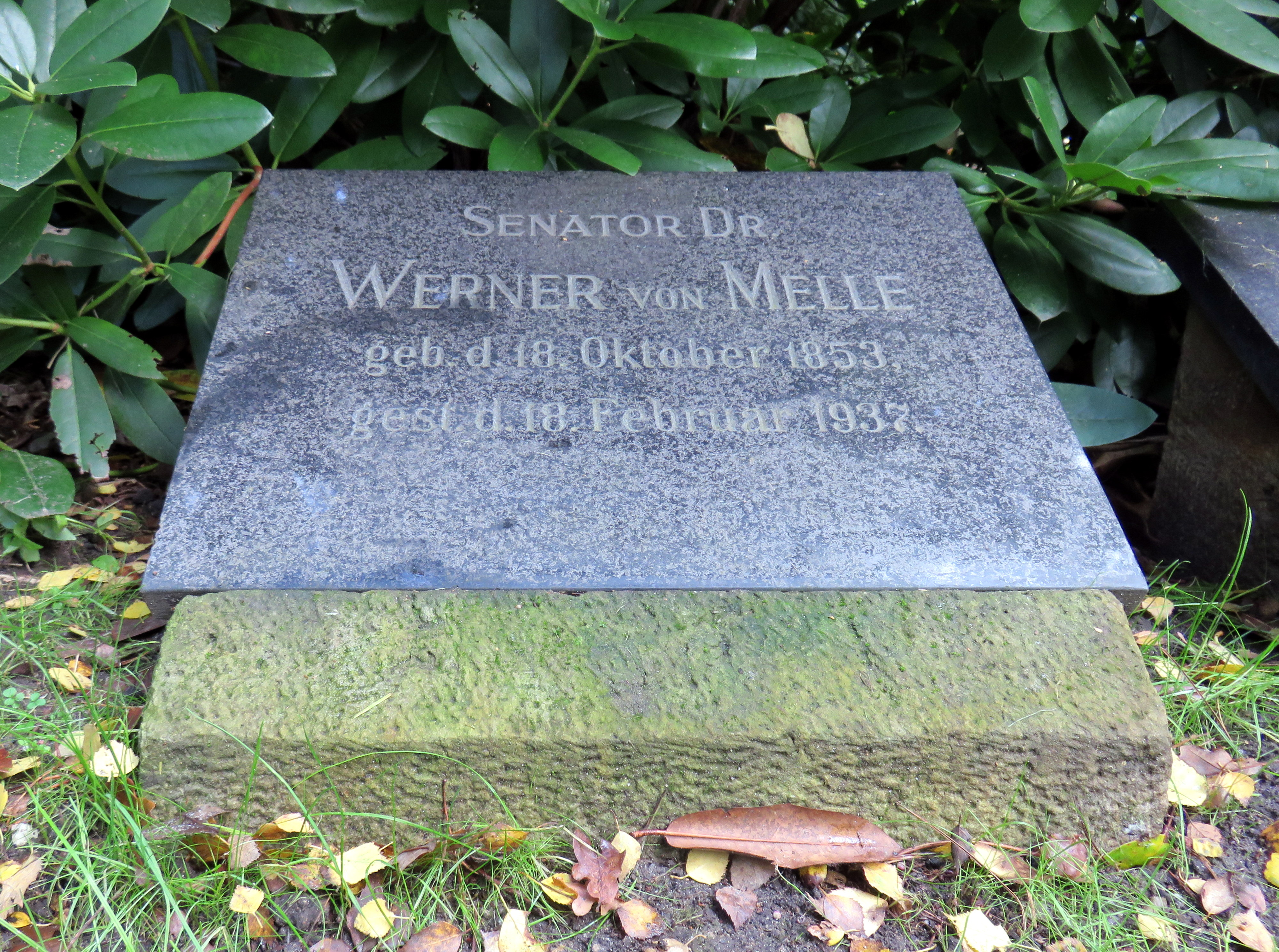 Gravestone for Hamburg lawyer and mayor Werner von Melle, Friedhof Ohlsdorf, map Z 10, south of Norderstraße.